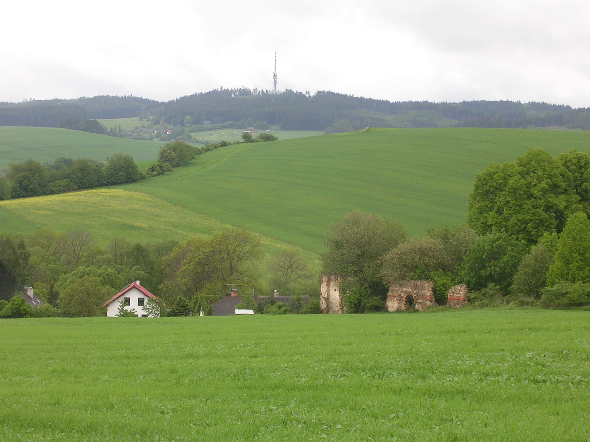 Neustupov-Svojšice, Benešov District, Central Bohemian Region, the Czech Republic.